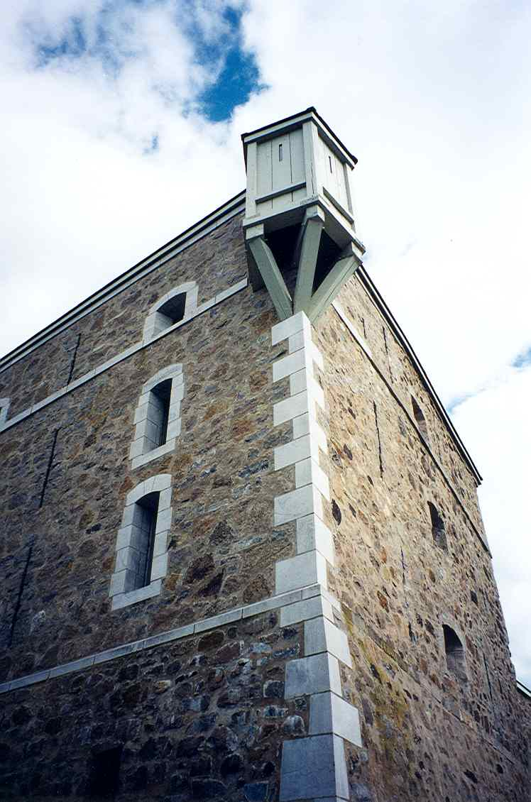 Fort Chambly bastion, Quebec